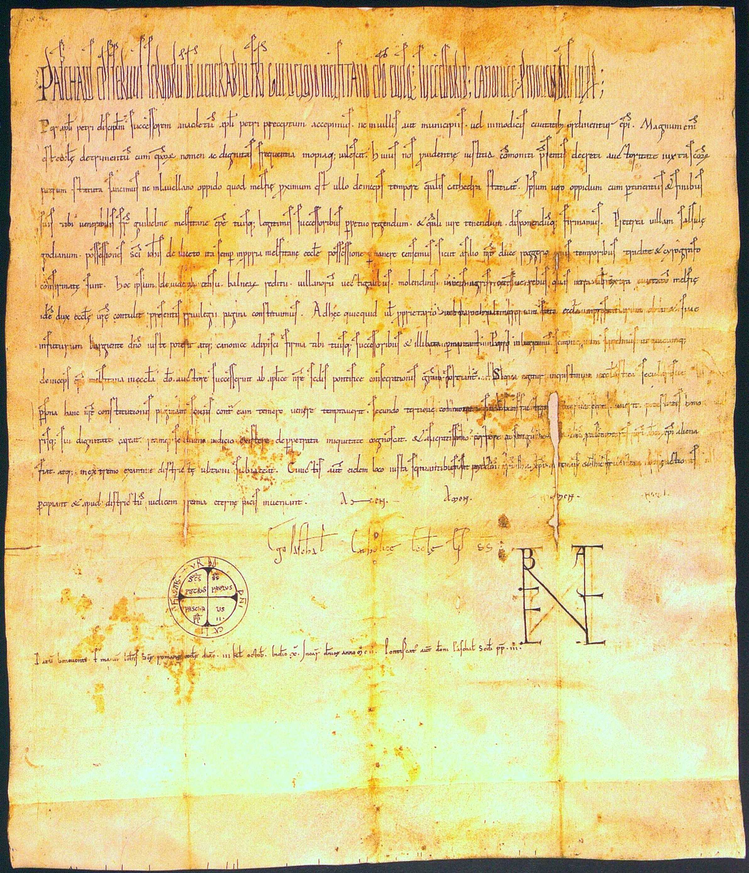 A charter of Paschal II. Vatican City, Archivio Segreto Vaticano, Instrumenta miscellanea 4291, I (1).